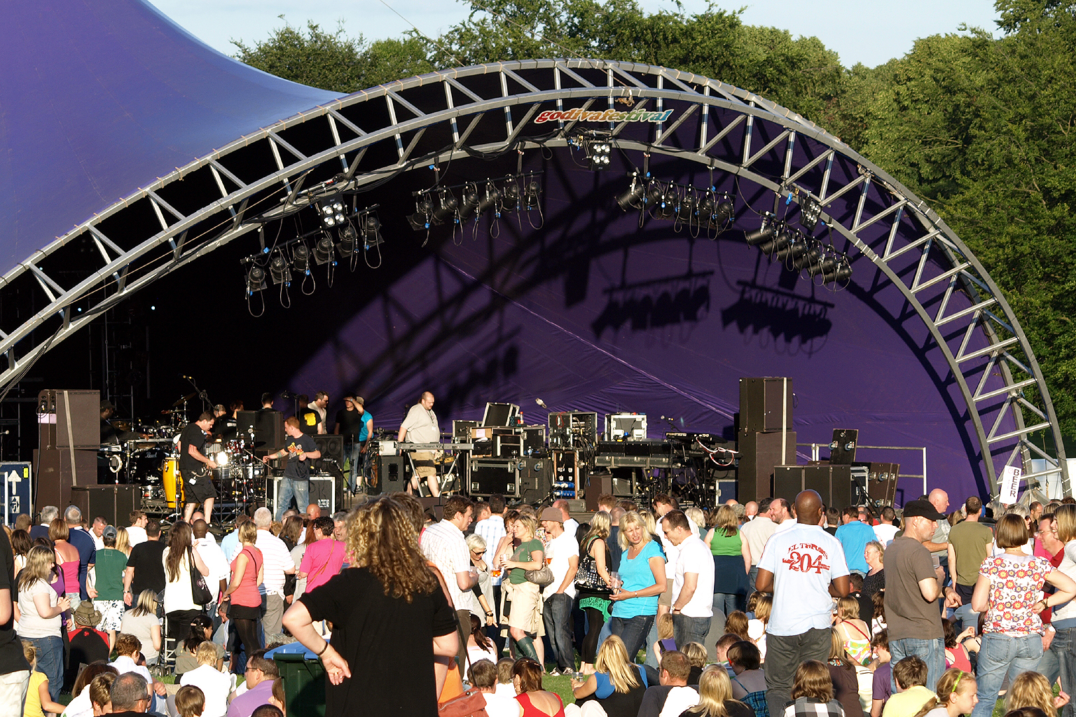 Godiva Festival at the War Memorial Park, Coventry, England (3 - 5 July 2009). The Electric Main Stage on Friday 3 July 2009.